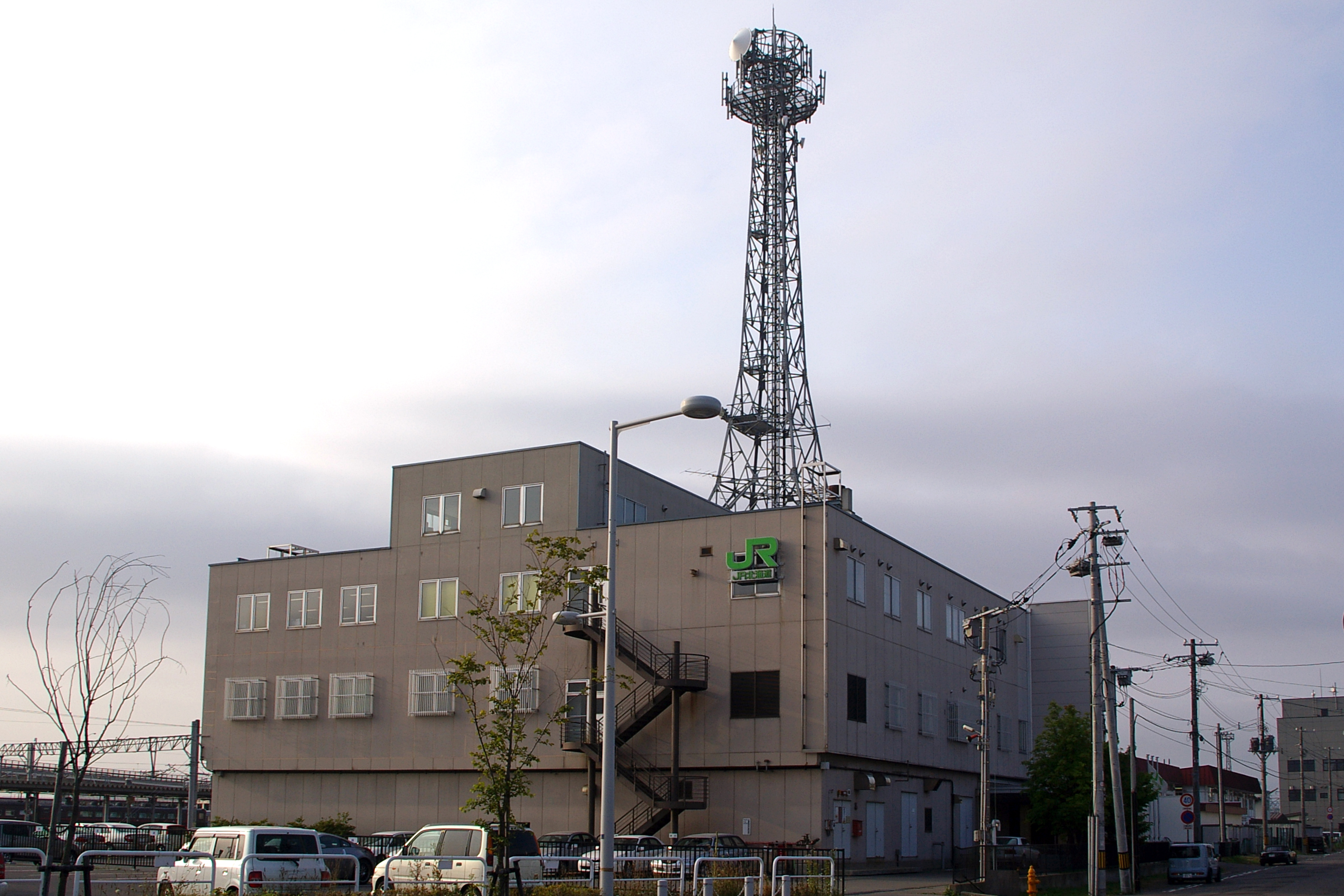 Photograph of Hakodate branch office of Hokkaido Railway Company (JR Hokkaido) in Hakodate, Hokkaido, Japan.